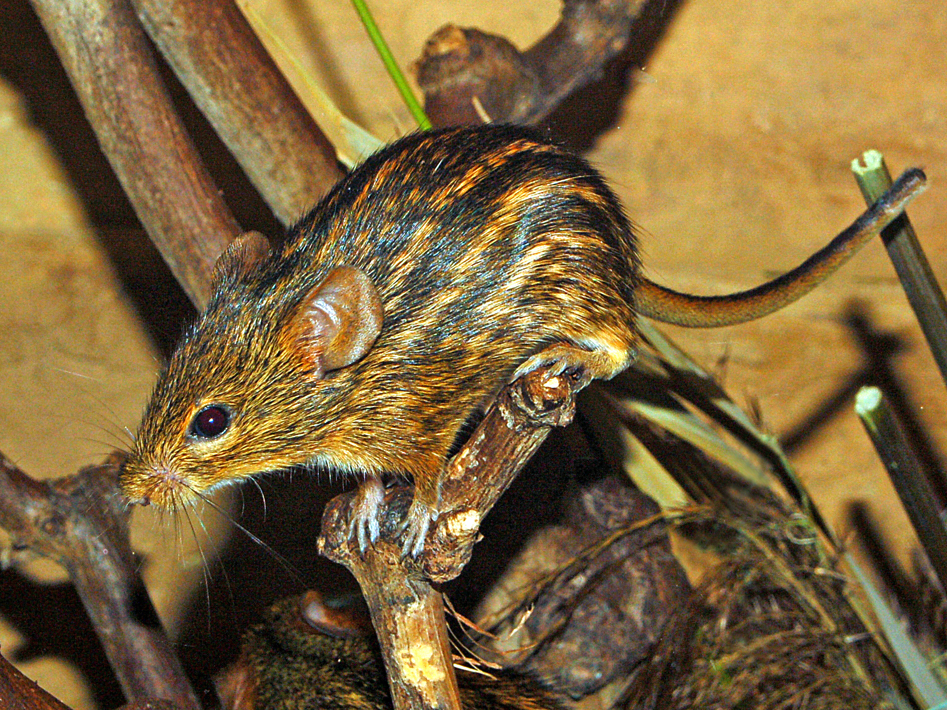 Lemniscomys striatus at the Praha Zoo